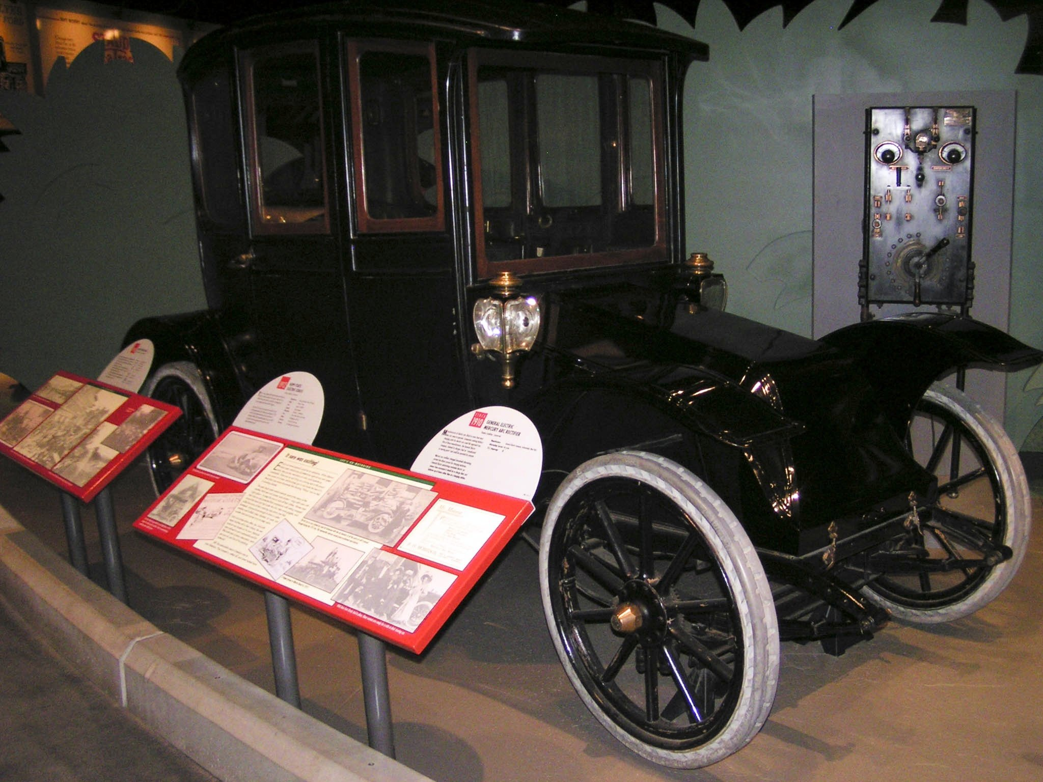 1912 Hupp-Yeats Electric Coach in Reynolds-Alberta Museum located in Wetaskiwin, Albert, Canada